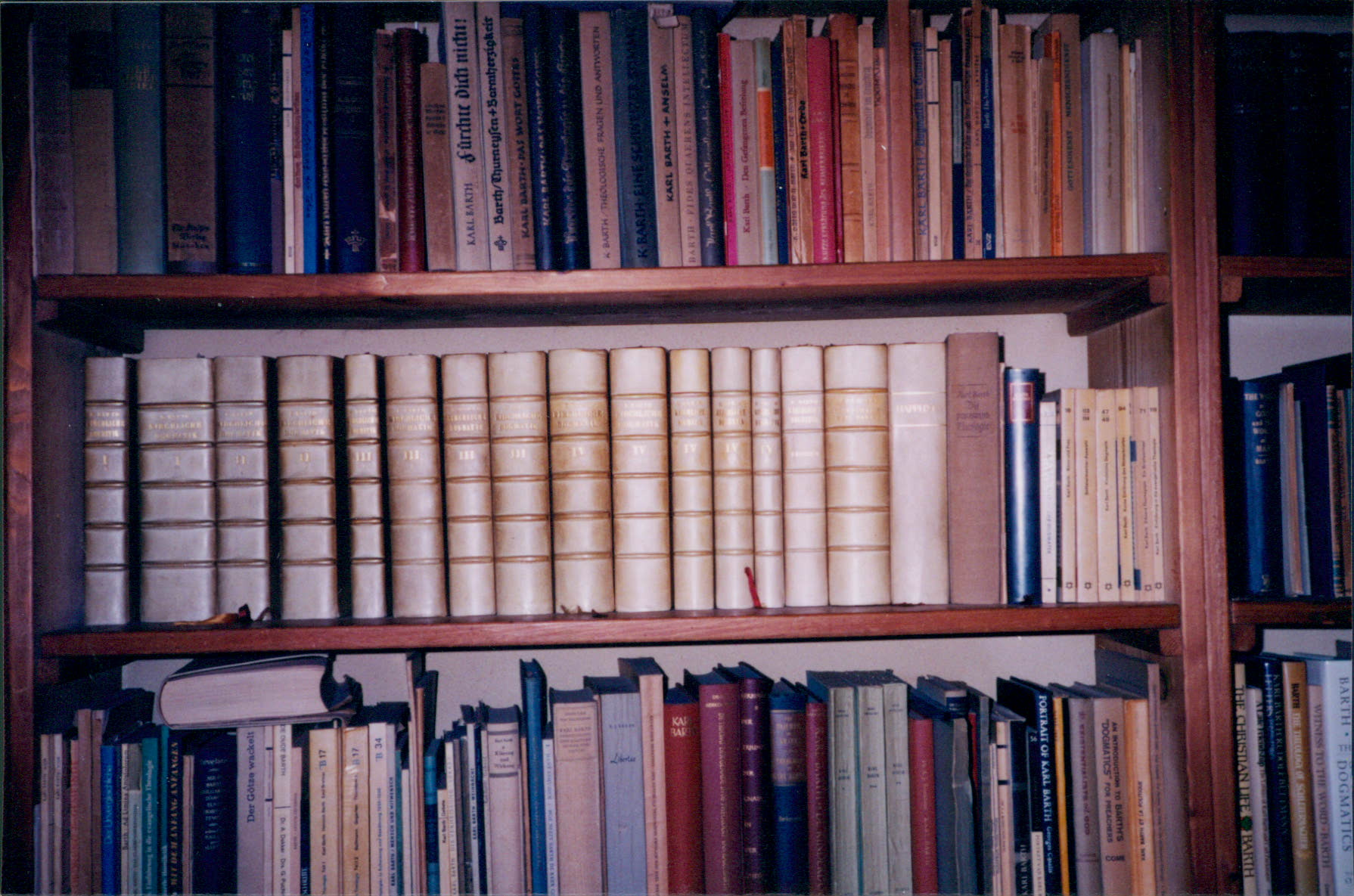 Karl Barth's Church Dogmatics in his office in Basil, Switzerland.